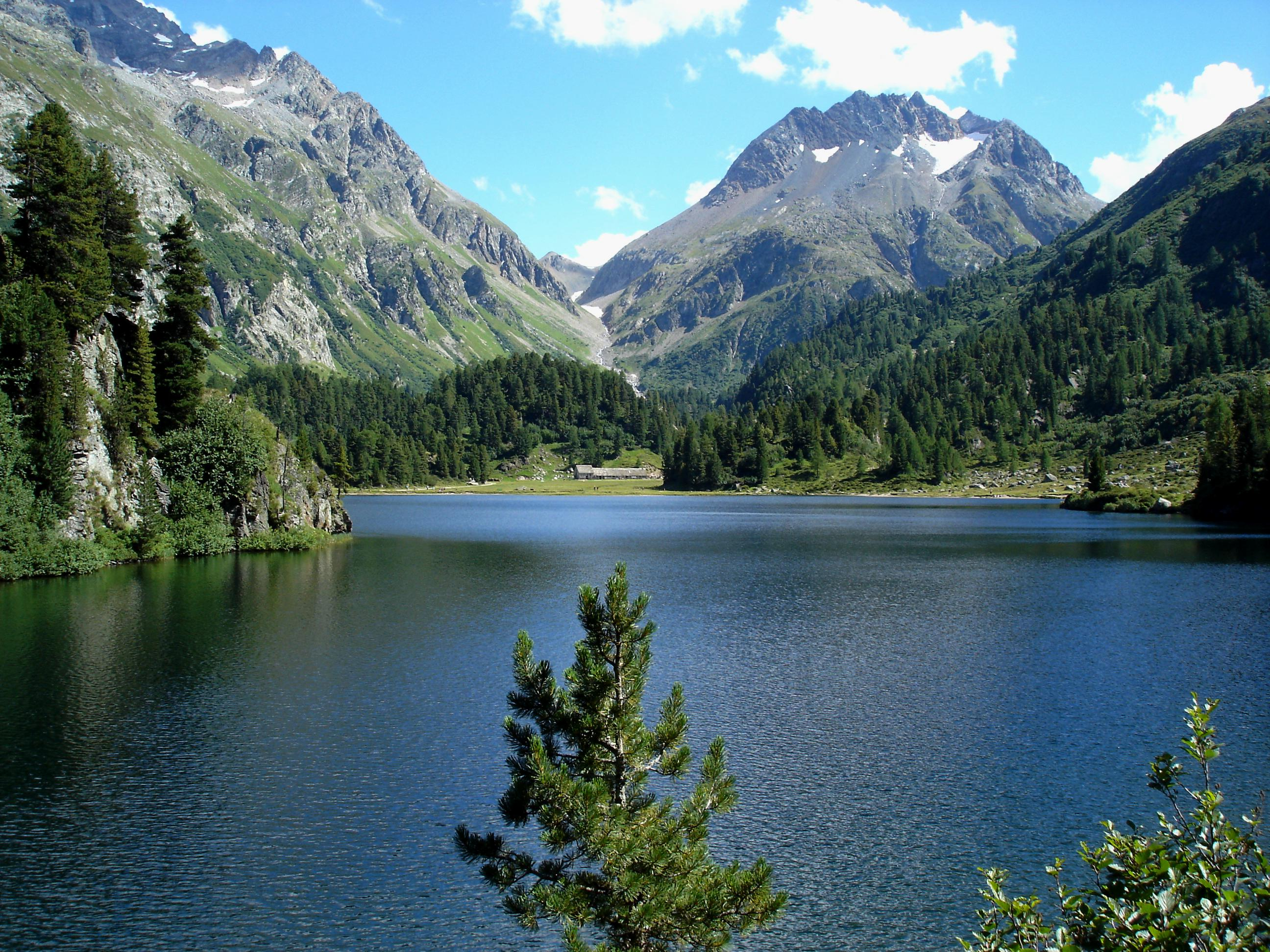 Lägh da Cavloc (Lake Cavloc), near Maloja in Graubünden, Switzerland. View on Monte Forno.